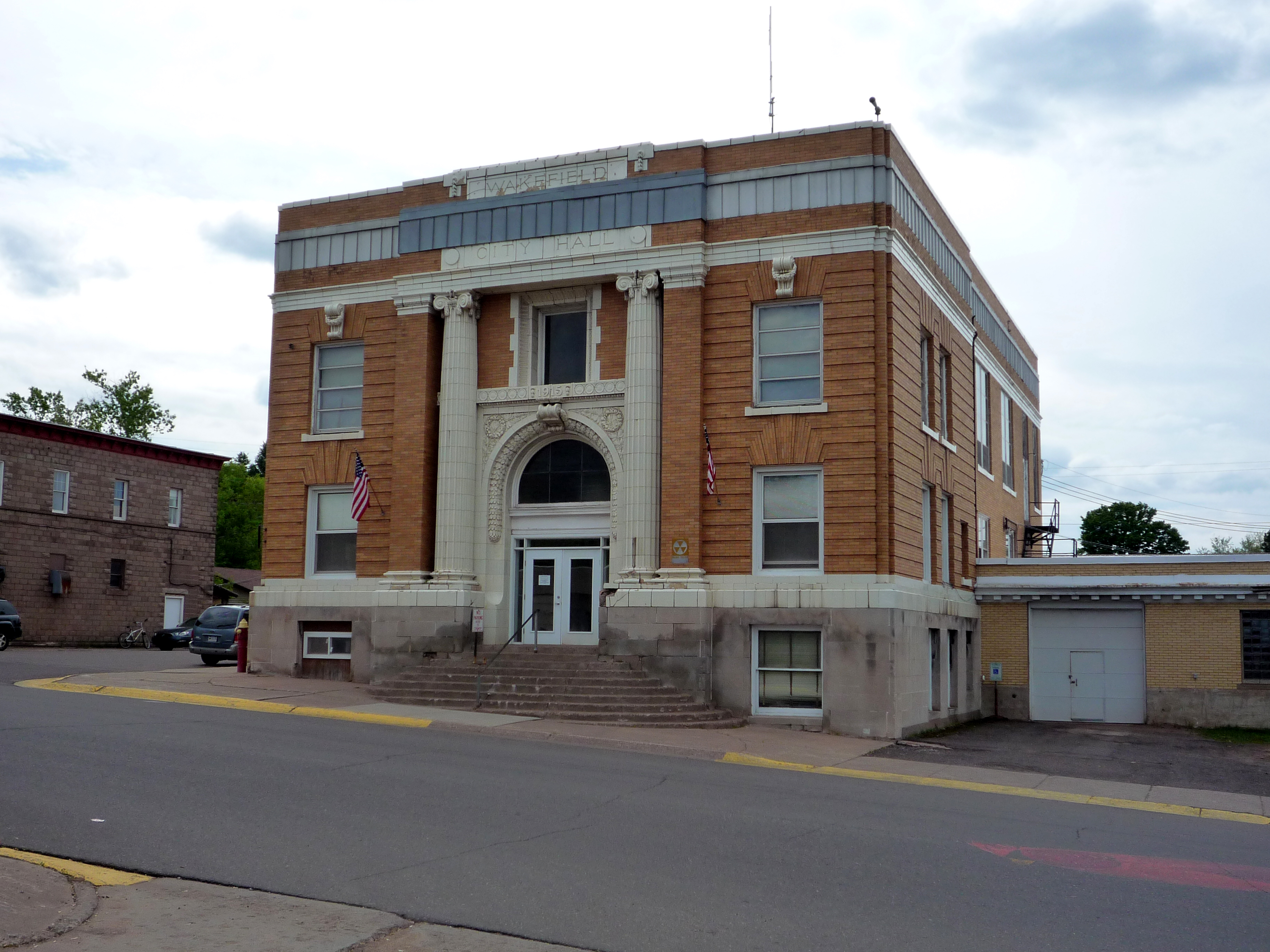 City Hall, Wakefield Upper Michigan.